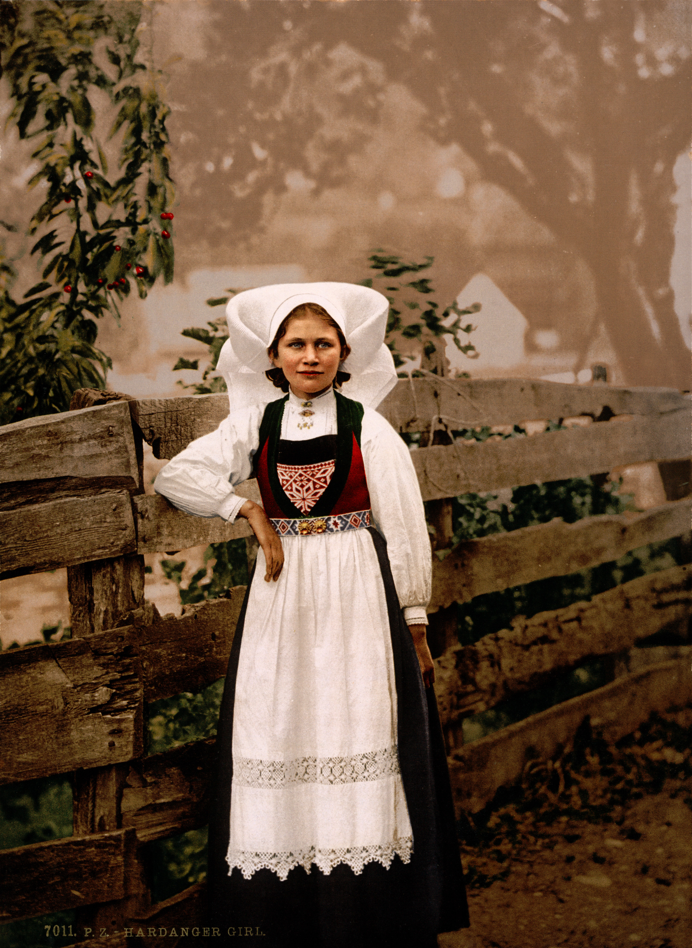 A young woman in traditional costume, Hardanger, Norway.